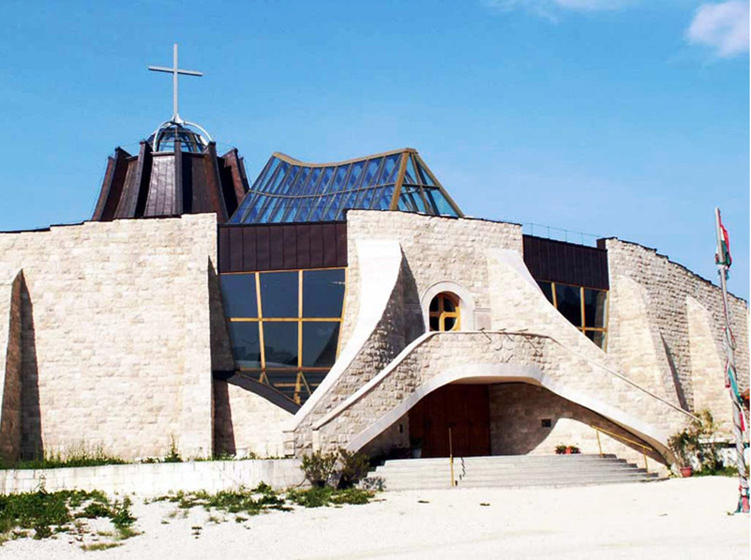 Church of the Holy Angels, Gazdagrét, Budapest, Hungary. Photo by Mr. Máté VargaObject location47° 28′ 08.25″ N, 18° 59′ 44.13″ E